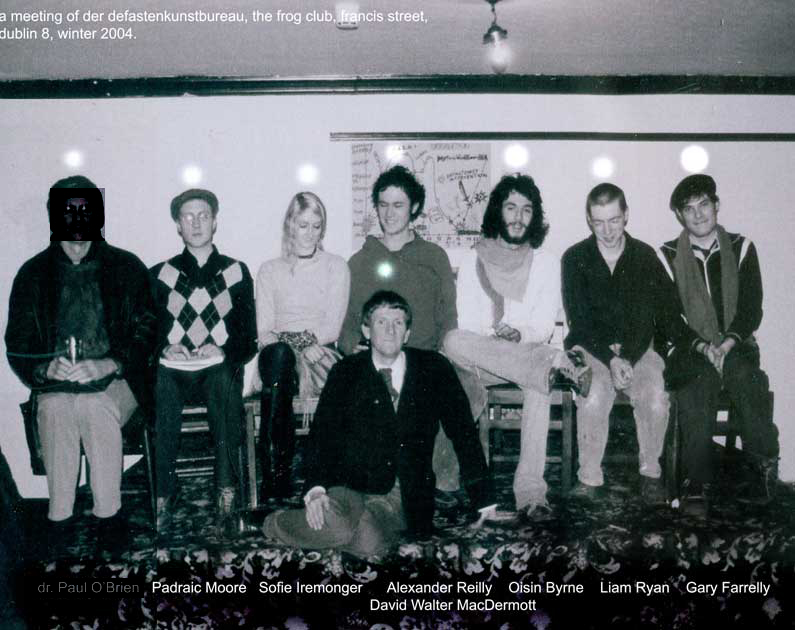 Defastenist group photograph 2005. Taken at the groups bi weekly cabaret at The Lizard Lounge, Francis Street, Dublin 8.